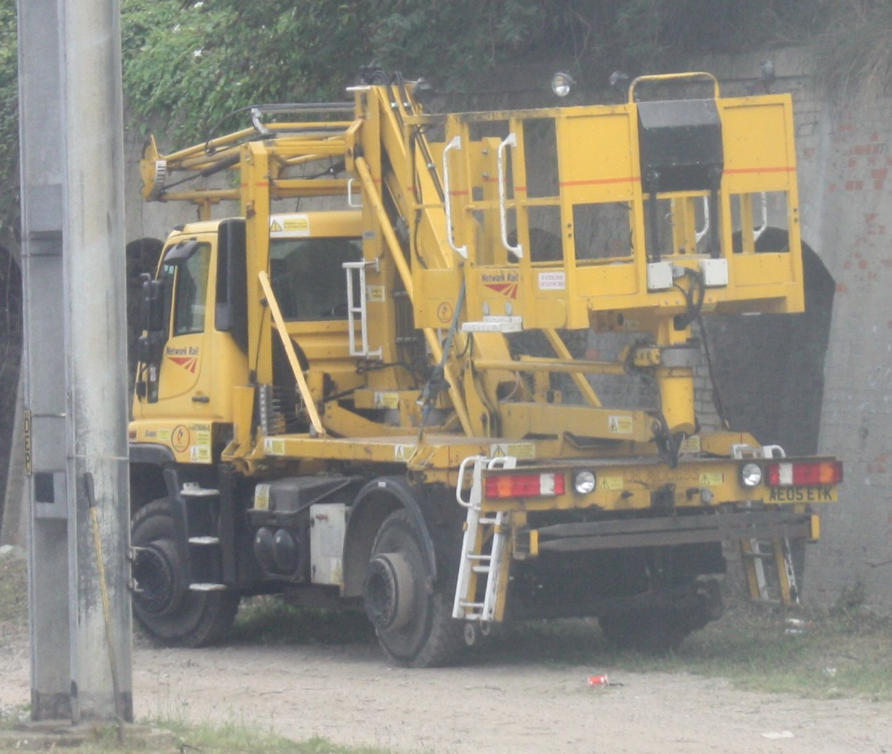 Unimog bucket truck on the line side approaching Kings Cross, with an Engineers's level crossing in the foreground (taken through a train window).